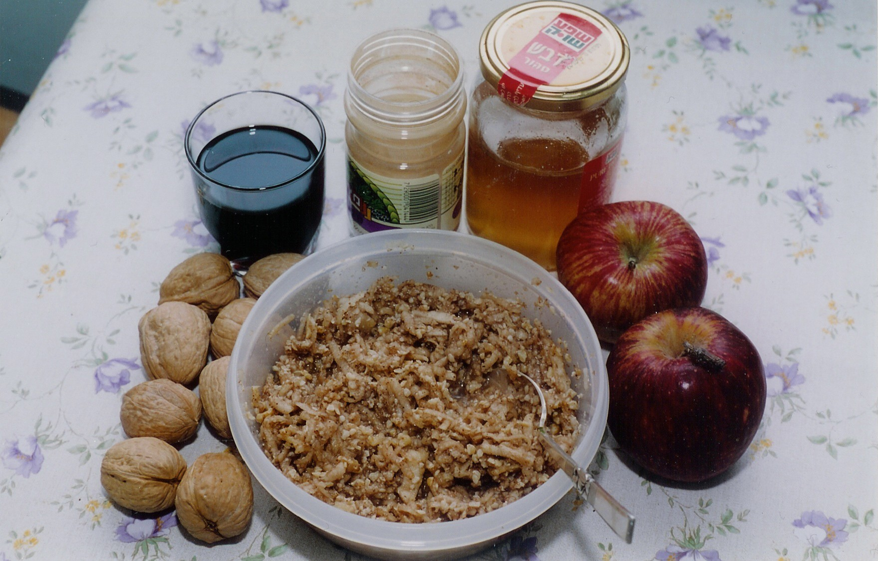 Bowl of Ashkenazi Jewish-style charoset, shown with ingredients (left to right: walnuts, wine, cinammon, honey and apples).